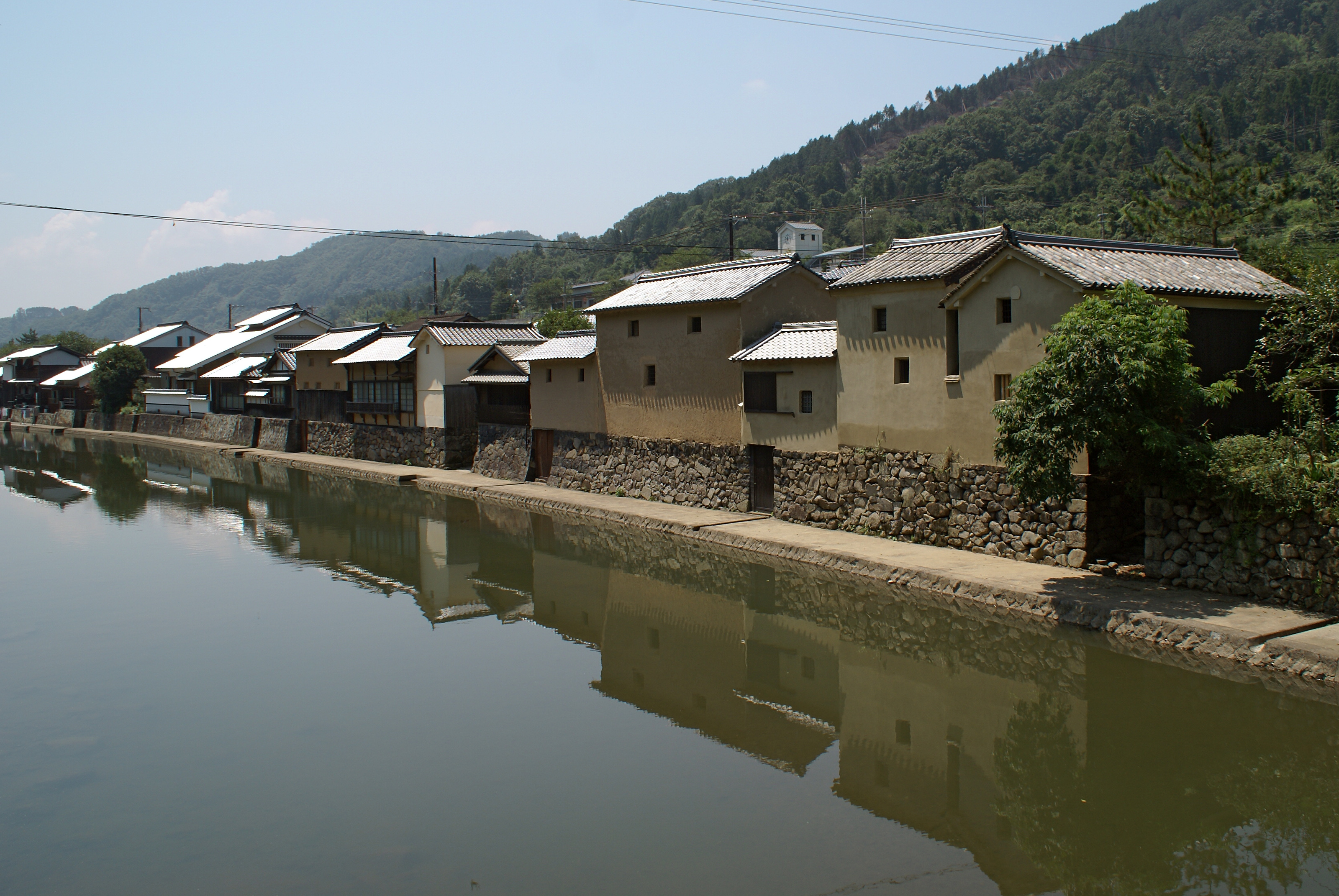 Scenery of the ridge of Sayo river in Hirafuku, Sayo, Hyogo prefecture, Japan